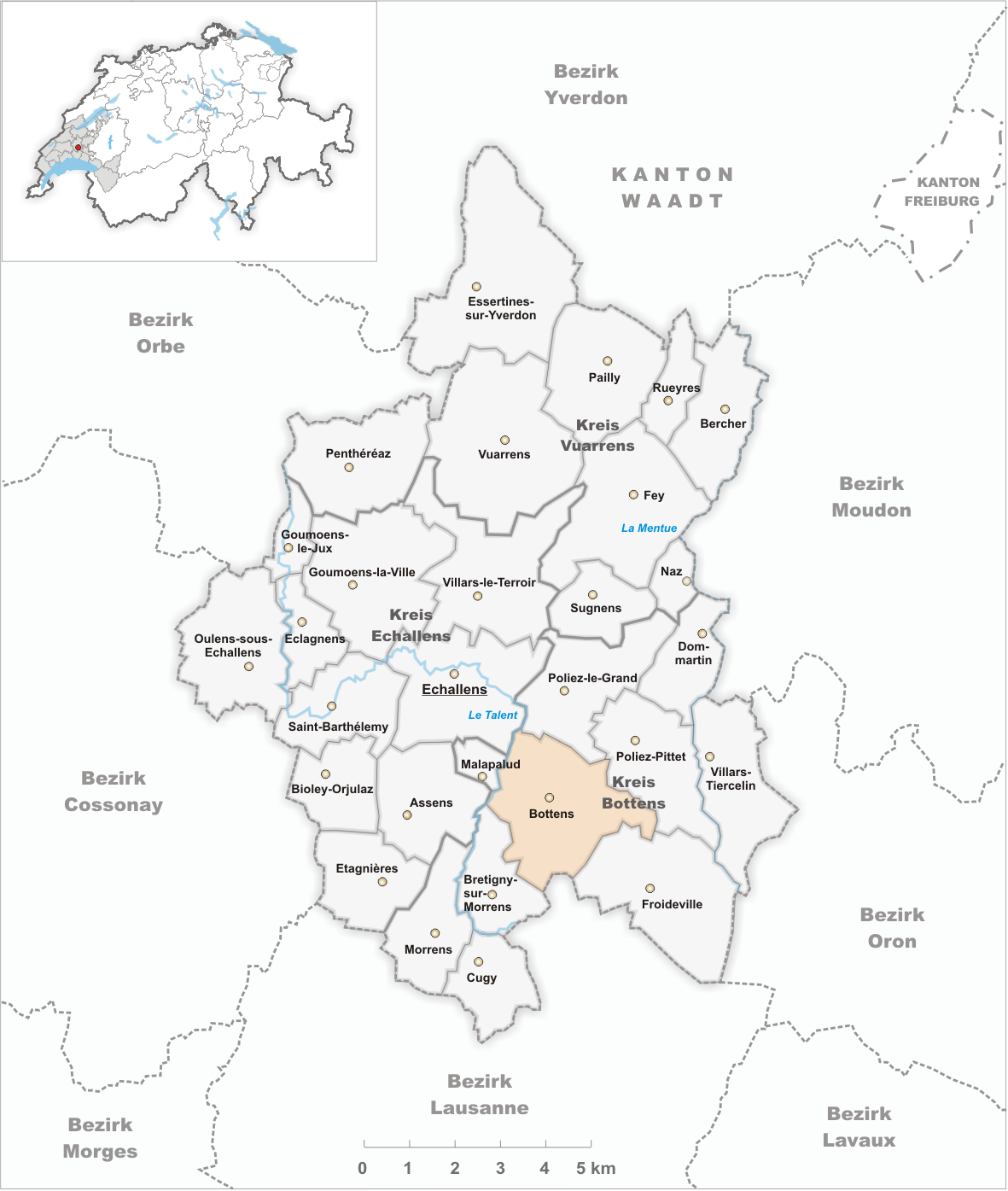 Municipality Bottens